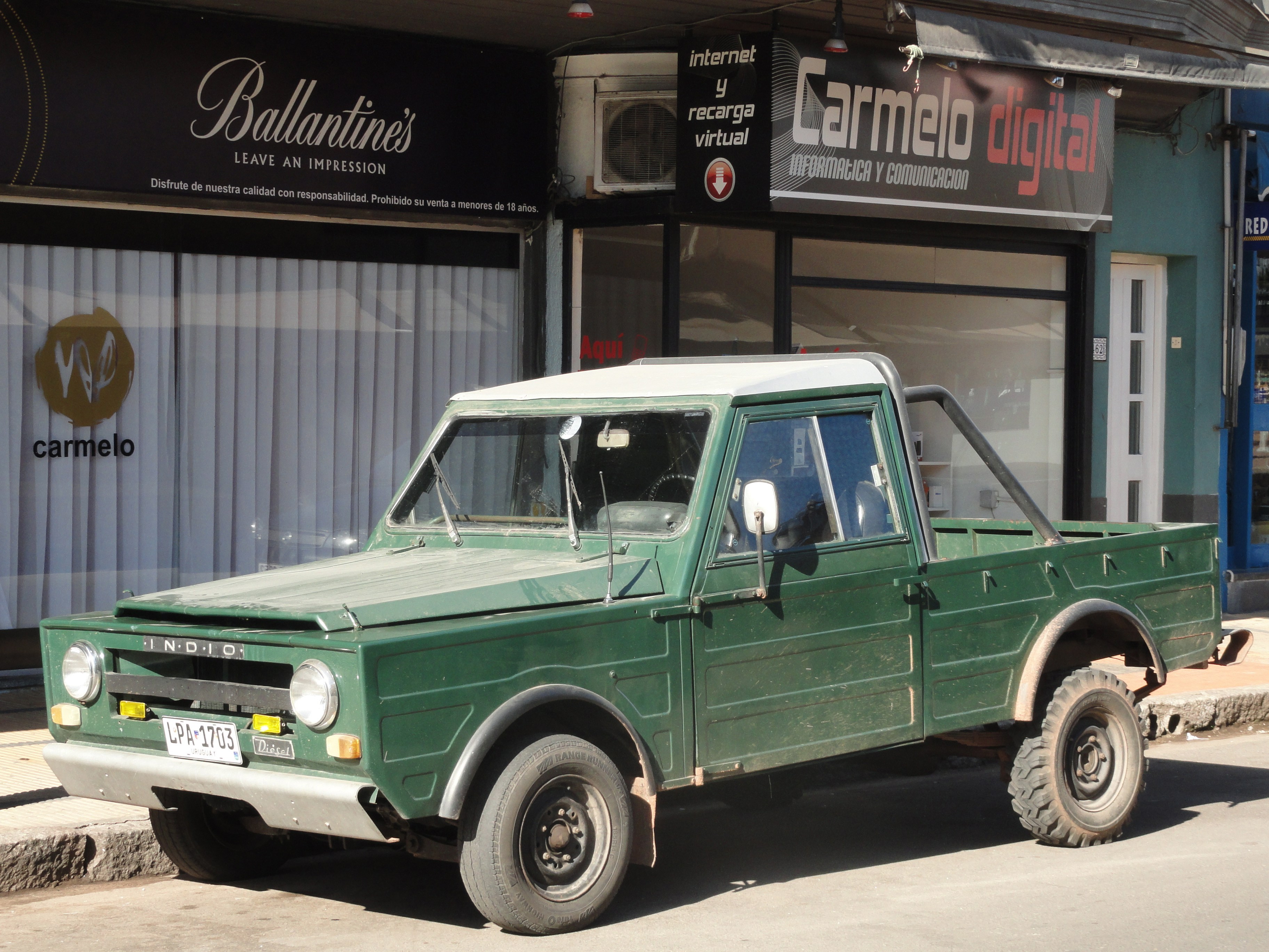 Indio, a utility vehicle made in Uruguay between 1969 and 1976. Project by Horacio Torrendell.